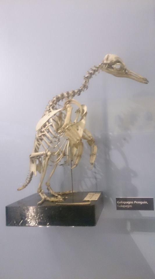 Galapagos Penguin Skeleton in Manchester Museum